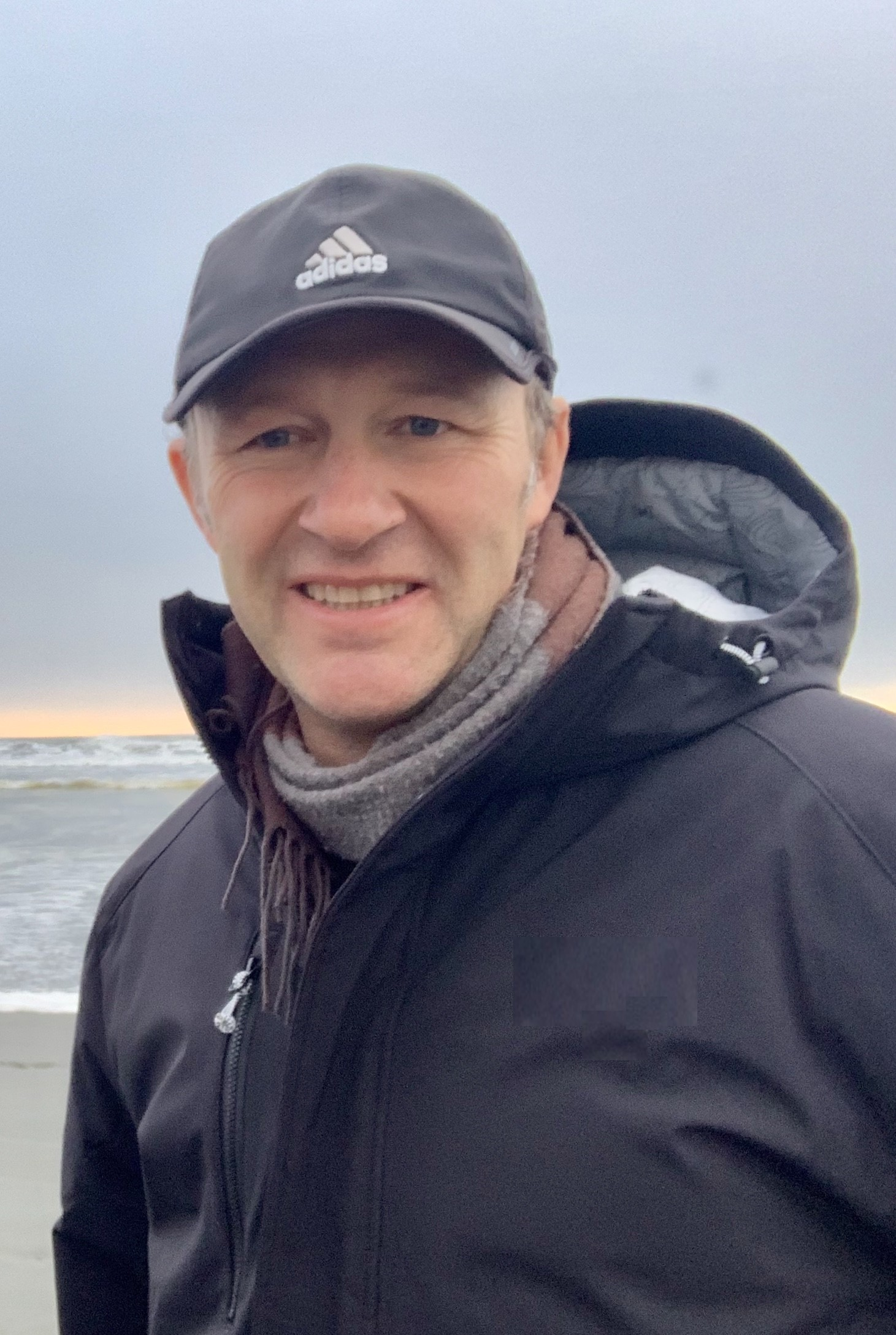 Matthew Olson is a Director of Coaching